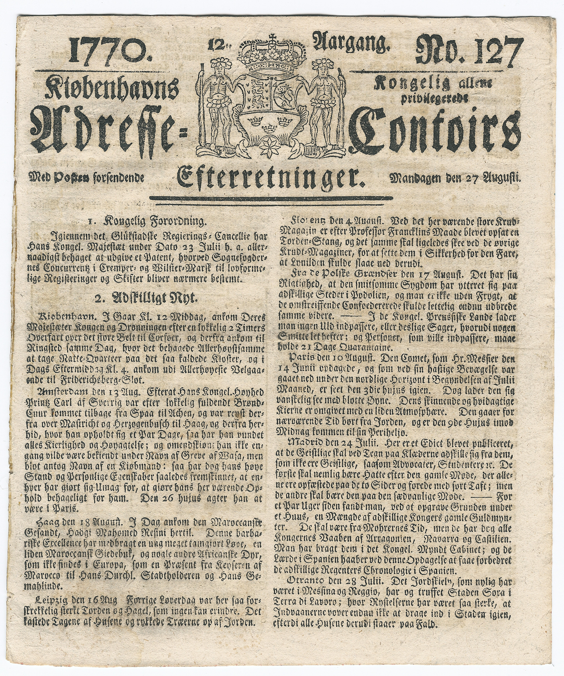 Kiøbenhavns kongelig allene priviligerede Adresse-Contoirs Efterretninger, august 1770. Forside.